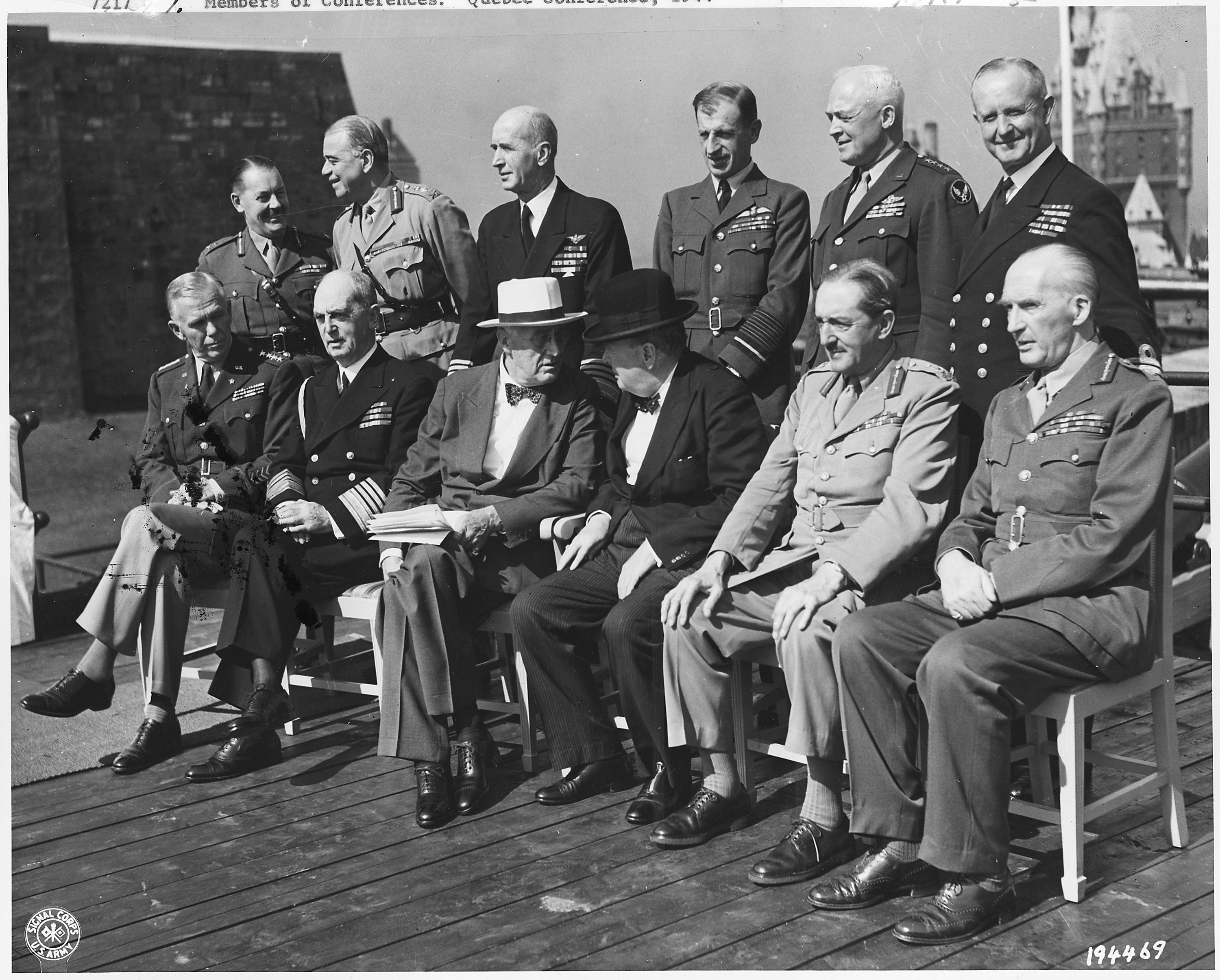 Scope and content: British and American combined Chiefs of Staff with President Franklin D. Roosevelt and Prime Minister Churchill. G.C. Marshall, Admiral W.D. Leahy, President Roosevelt, Prime Minister Churchill, Field Marshal Sir Alan Brooks, Field Marshal Sir John Dill; (standing) Maj. Gen. Hollis, Gen. Sir Hasting Ismay, Admiral E.J. King, Air Marshal Sir Charles Portal, H.H. Arnold, Admiral Sir A.B. Cunningham. Quebec Conference, September, 1944.